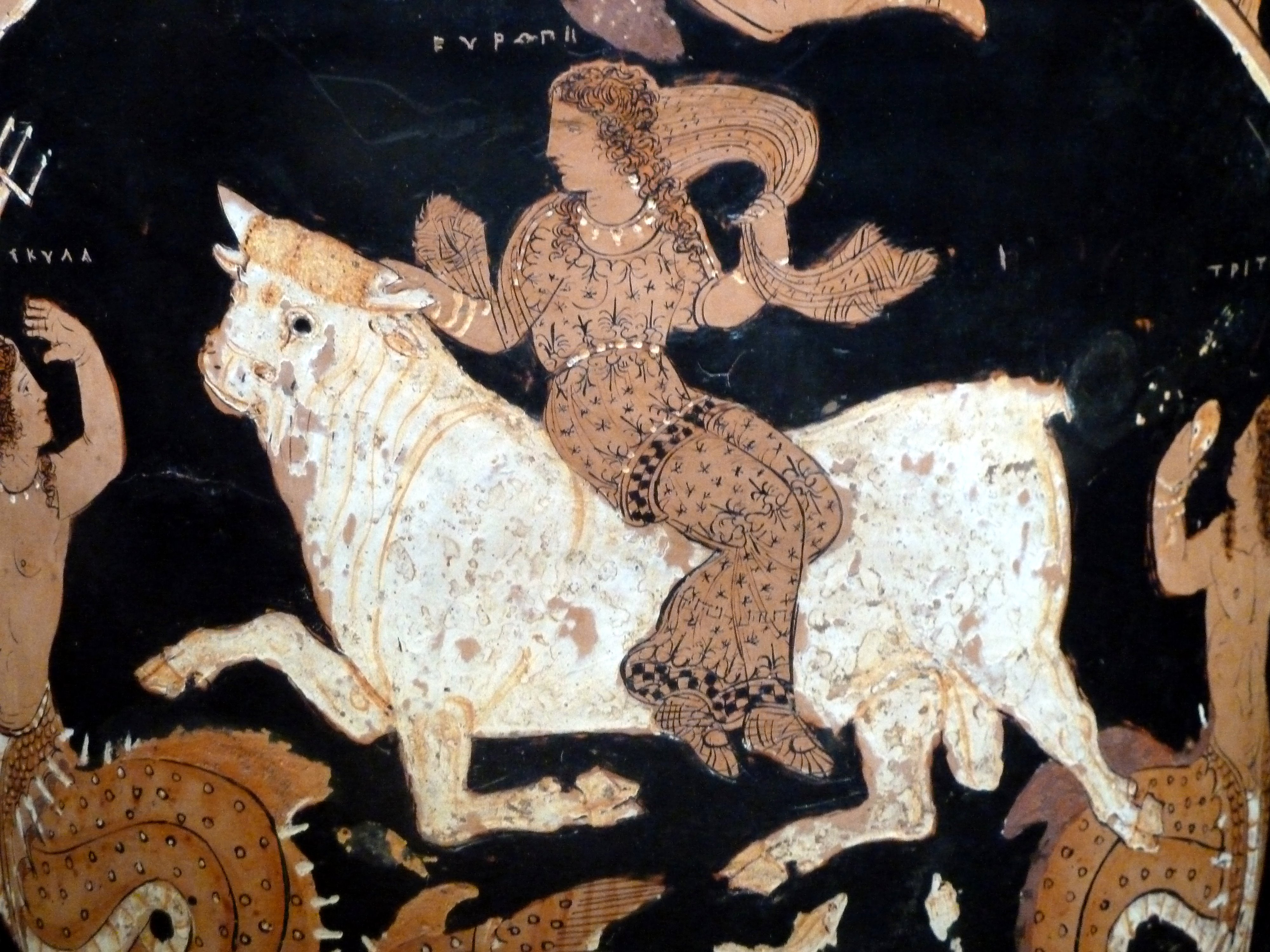 Calyx krater with Rape of Europa, National Archaeology Museum at Paestum.